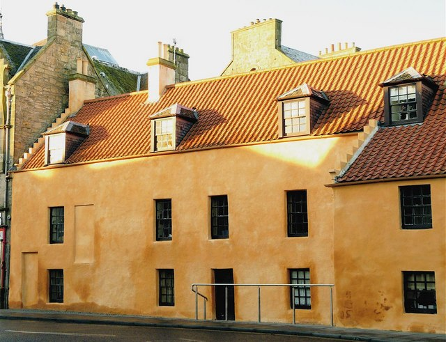 Dymock's Building Bo'ness. For background, see 541753. The daughter of Mrs Dymock, who was in the Post Office in the early 1920s lives in Christchurch NZ. I met her when I held a gate open for her beside a loch in the middle of New Zealand. We discovered our mothers had been born within a mile of each other!